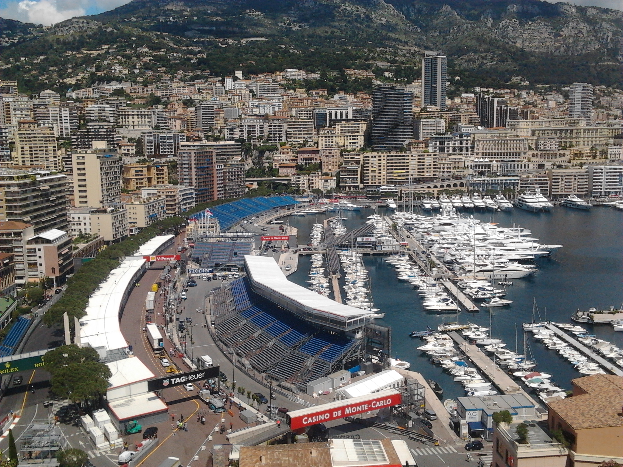 The Montecarlo's harbour during the days of Formula 1 Monaco GP 2013